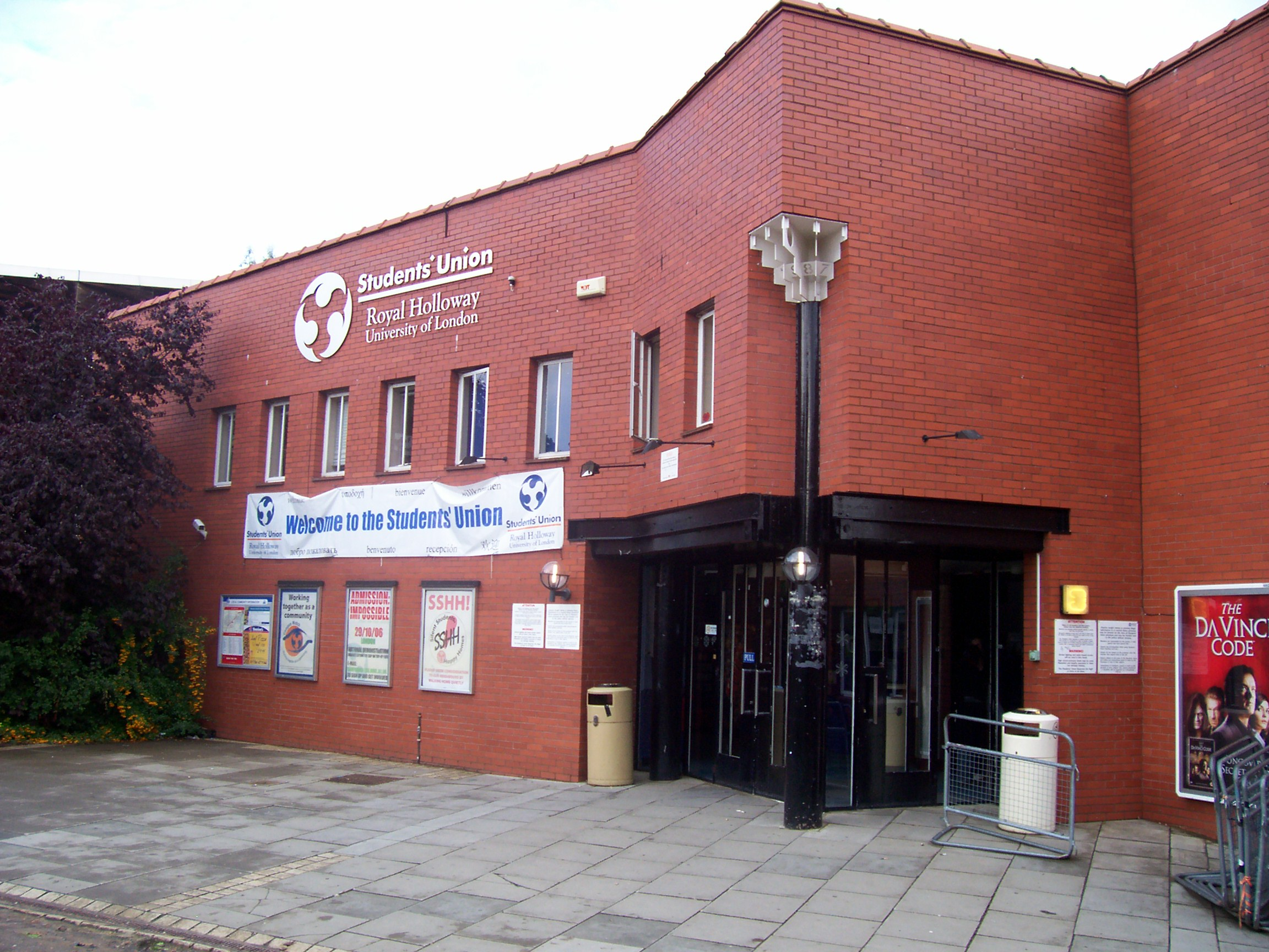 The Students' union building of Royal Holloway Taken by me on October 11th 2006